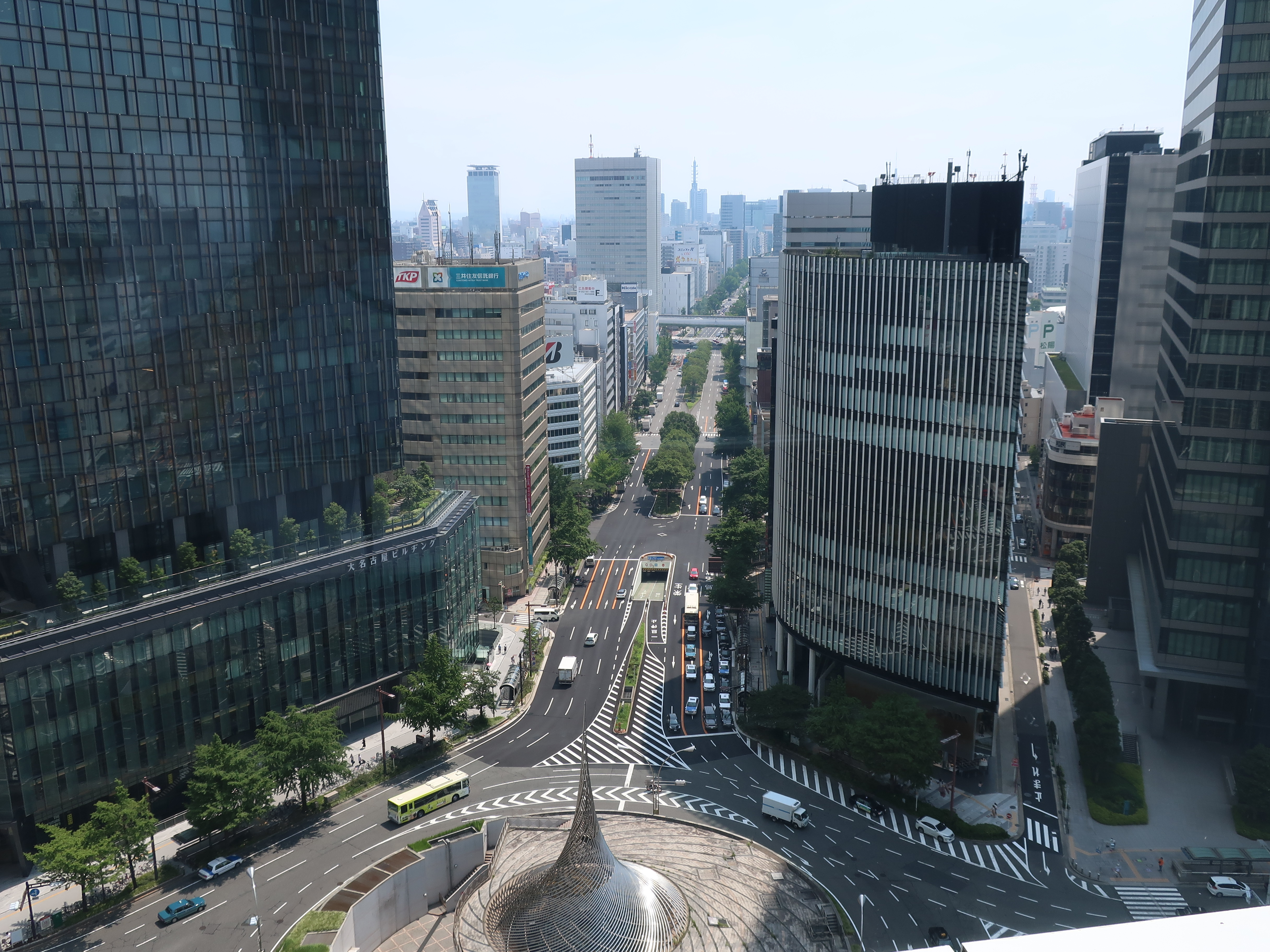 Scene of Sakura-dori street, from JR Central Towers in Nagoya. (July 16, 2018)